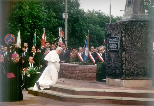 Jean Paul 2 à Radom 1991